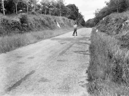 The cutting near Gemas, Malaya, where the Australian 2/30th Infantry Battalion carried out an ambush on Japanese forces in January 1941.